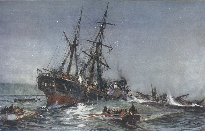 "The Wreck of the 'Birkenhead' in 1852" of lithograph after a painting by Charles Dixon, published in Britannia's Bulwarks, 1901.